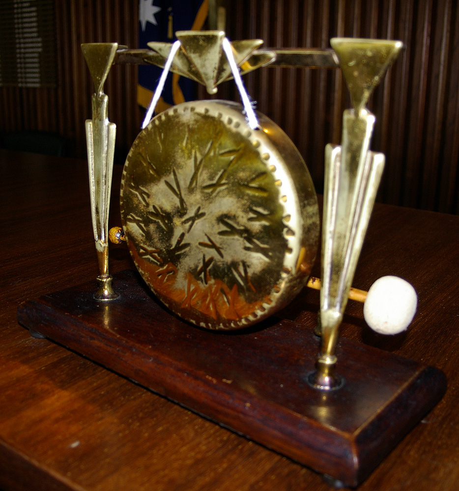 Wagga Wagga City Council Mayoral gong which was located at the Museum of the Riverina at the Historic Council Chambers. 2 January 2009 the gong was stolen by three youths and is yet to be found.[1]